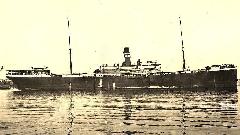 Ocean liner Valbanera, Naviera Pinillos, Spain, (1915)